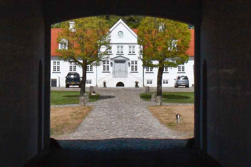 Eskær Hovedgård in Vendsyssel, Denmark, view through the gate